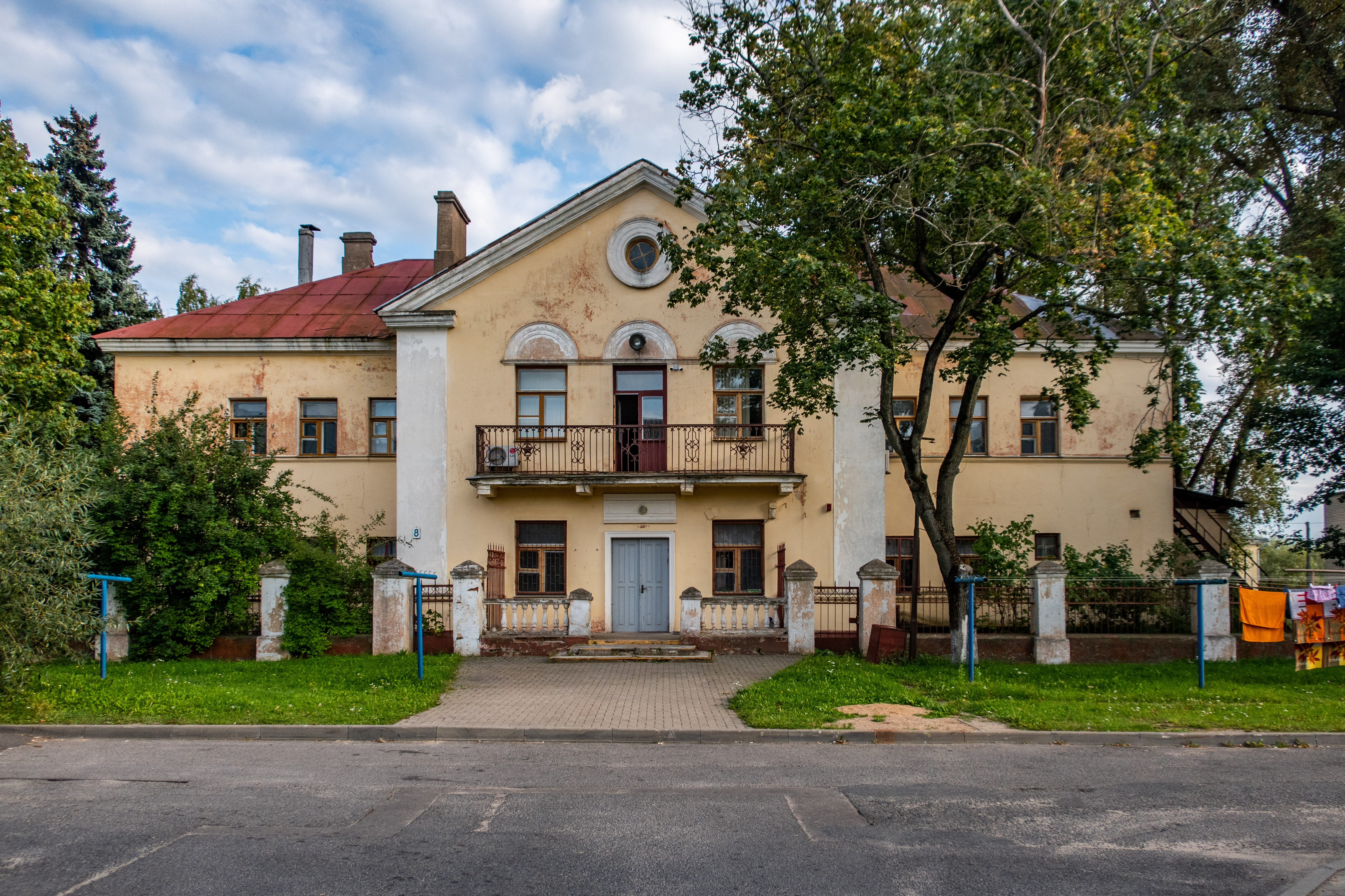 Ščarbakova lane. Minsk, Belarus